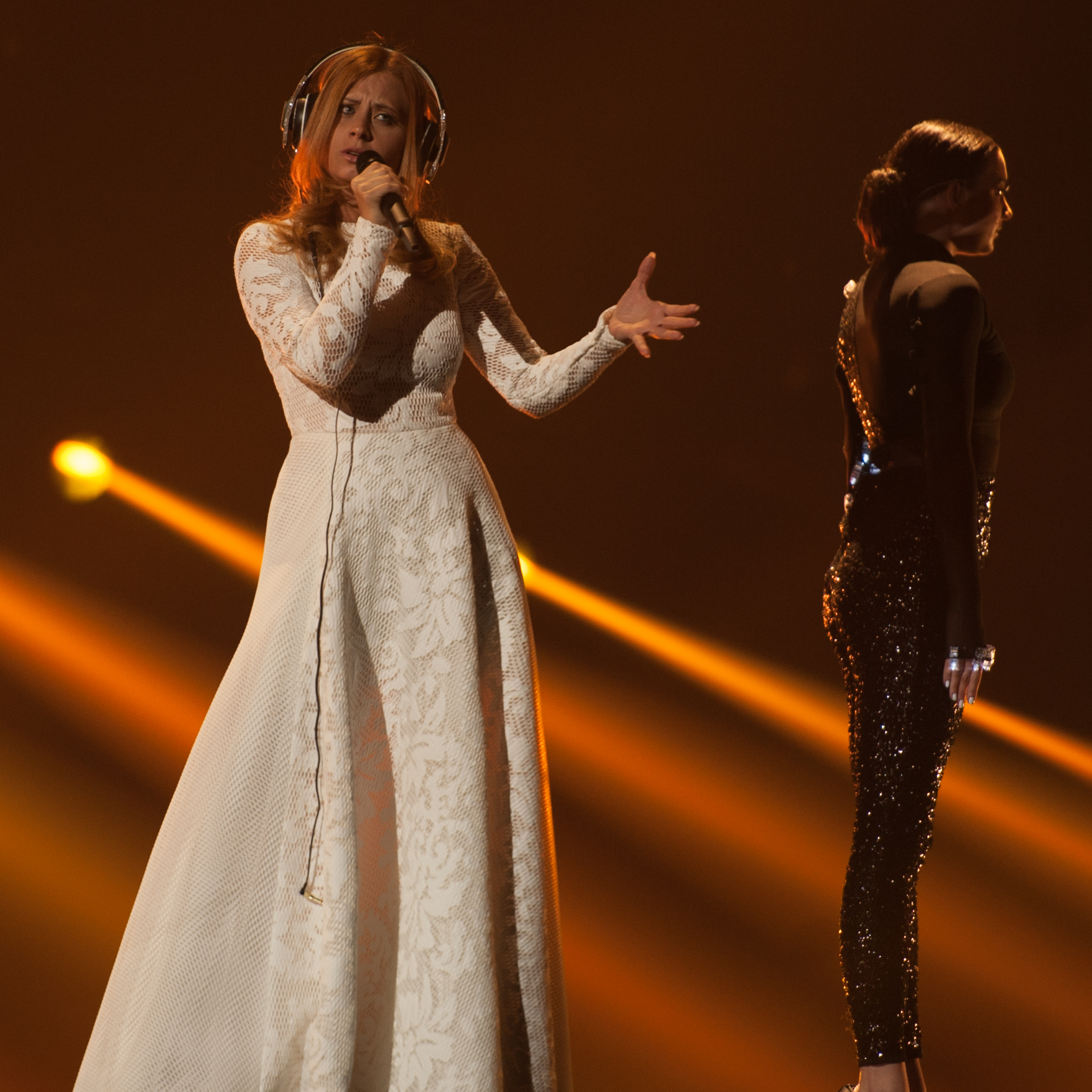 Eurovision Song Contest Vienna 2015: Maraaya